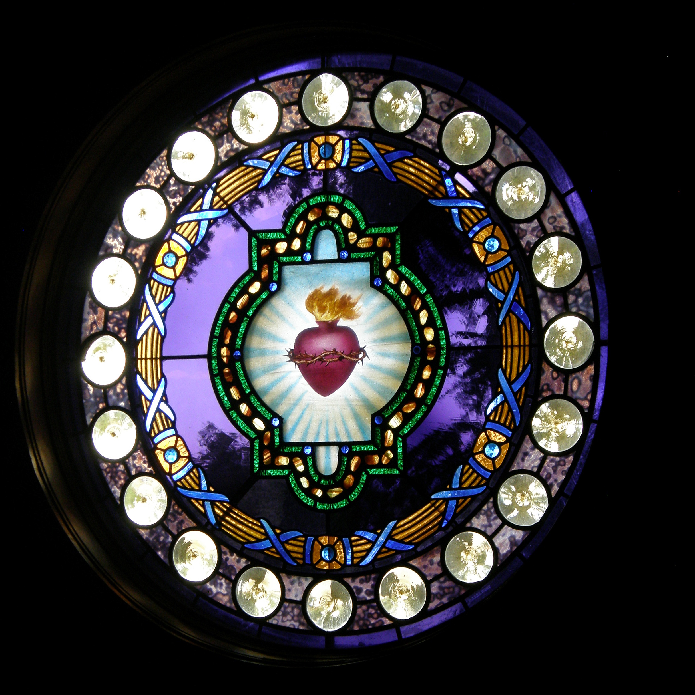 Chapel of the Sacred Heart (Grand Teton National Park, WY) - Sacred Heart rose window